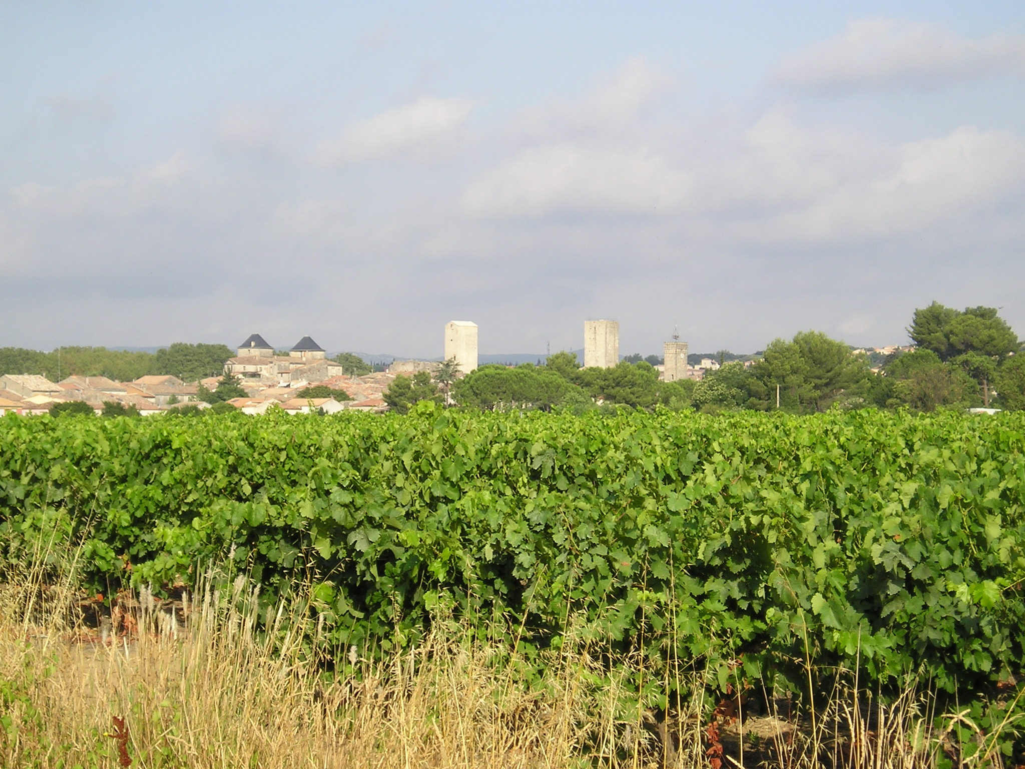 In Hérault, France, the towers of the old towncenter of Pignan, from left to right: the two towers of the Turenne Castle (now townhall), two medieval high towers and the Clock Tower. view from the East and the road D5.